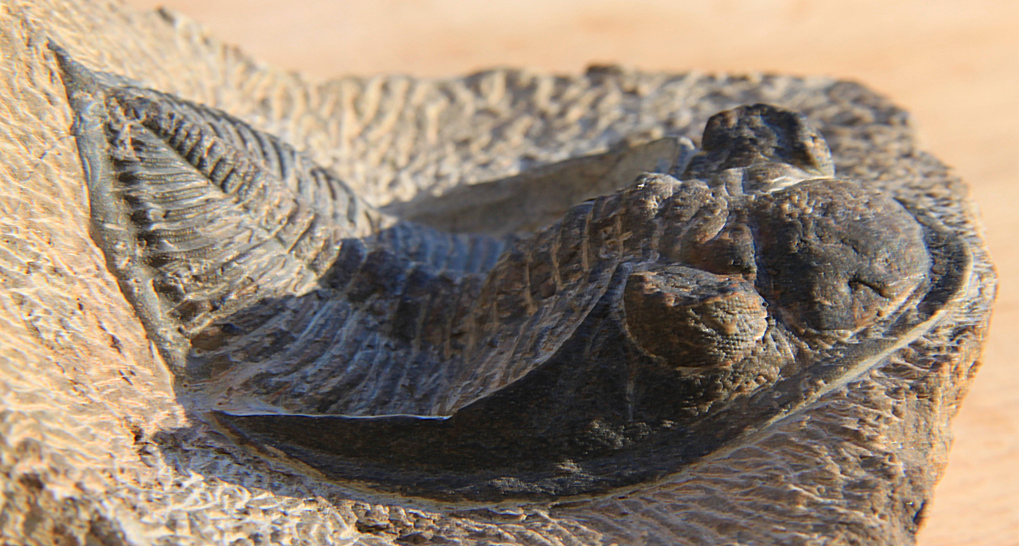 A trilobite of the genus Odontochile, Order Phacopida, Family Dalmanitidae, 73mm measured along the axis, oblique frontal view, collected near Hamar Laghdad, Morocco, from the Middle Devonian